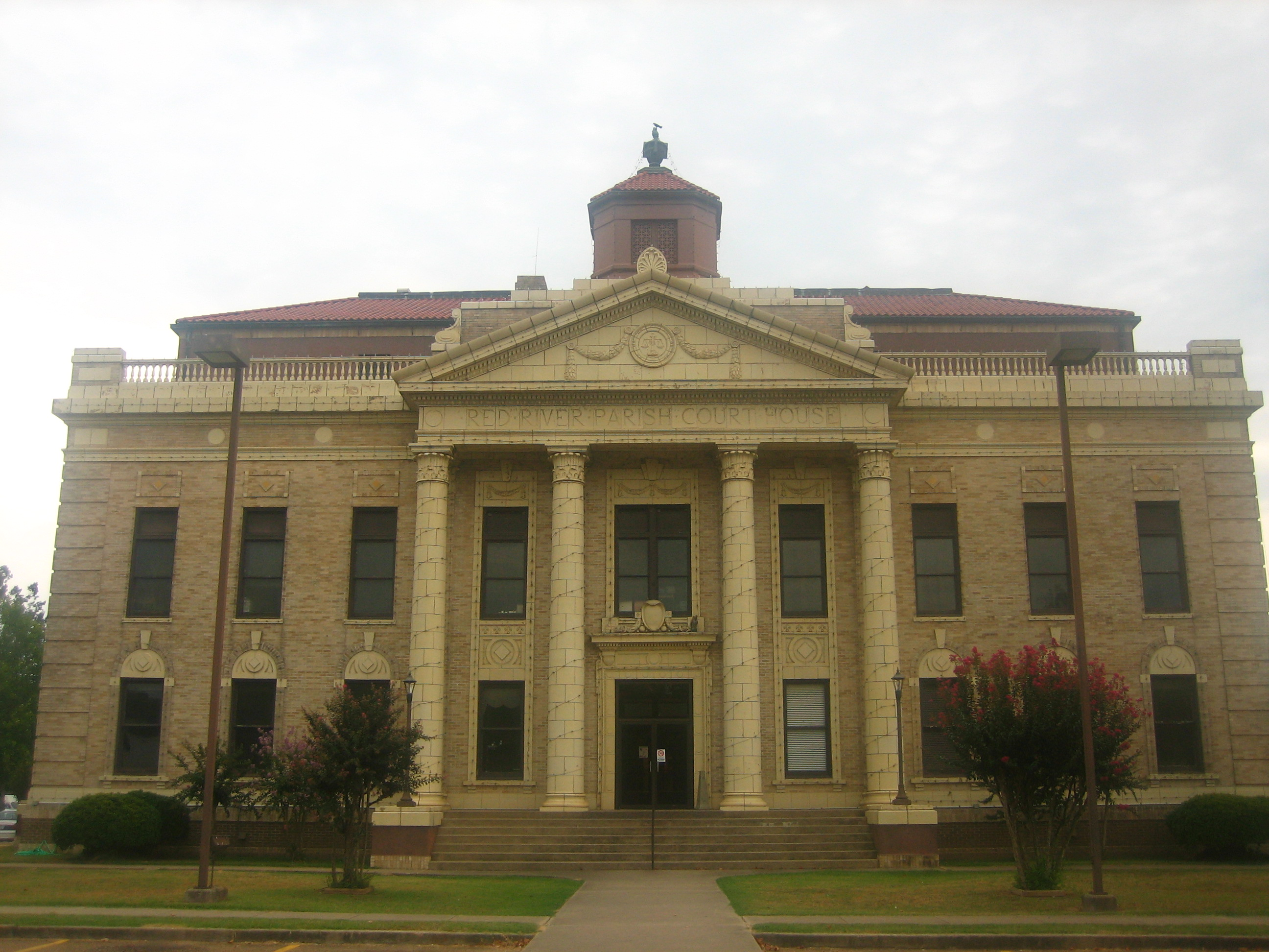 Red River Parish Courthouse, Louisiana. Source: I took photo on Aug. 10, 2008.Billy Hathorn (talk) 11:31, 20 August 2008 (UTC)